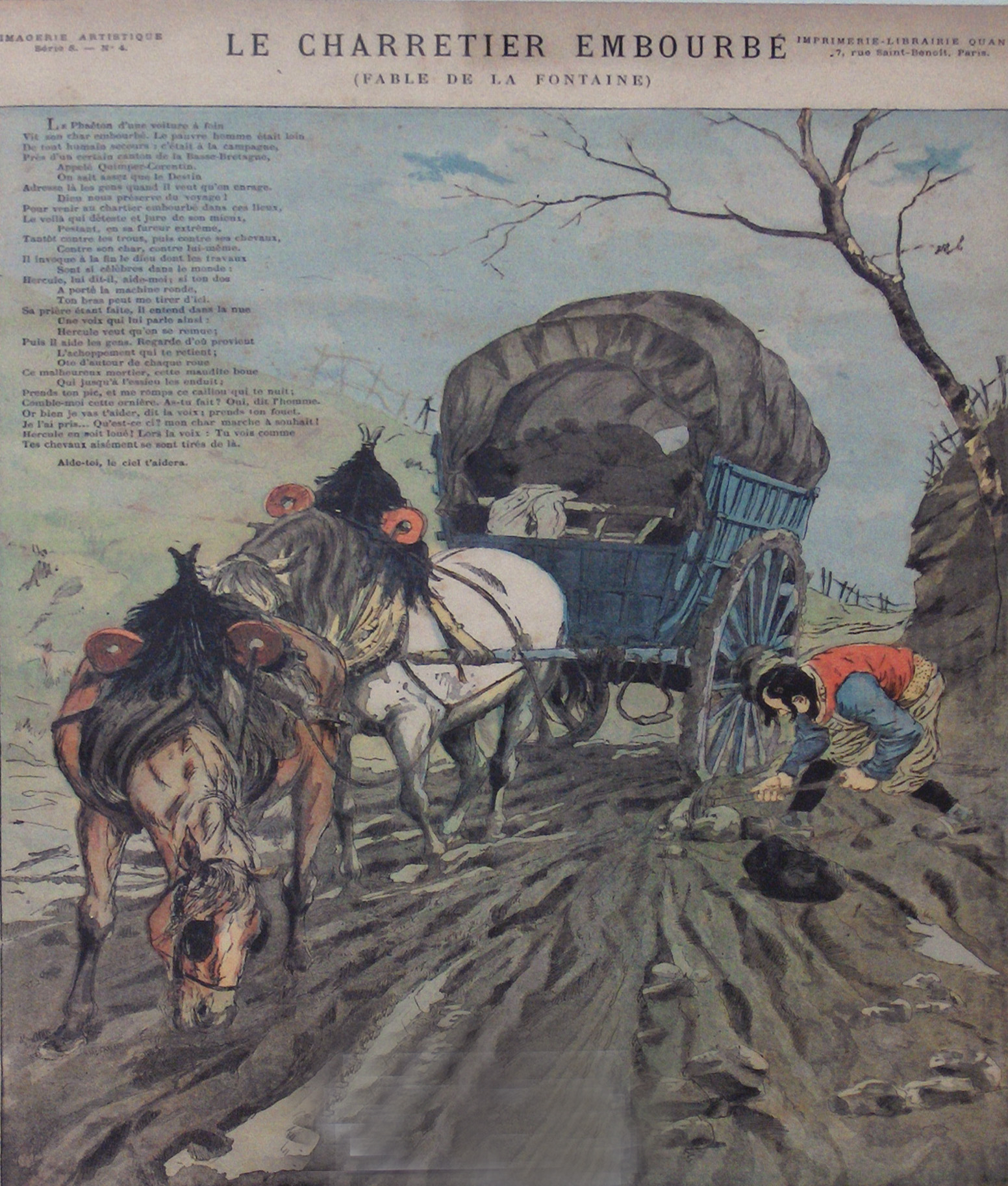 "Le charretier embourbé" (The waggoner mired), fable by Jean de la Fontaine (1621-1695); print from the 19th century